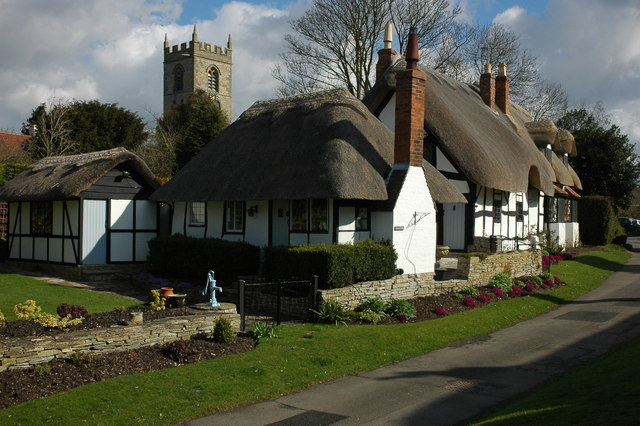 Ten Penny Cottage, Welford on Avon Ten Penny Cottage is situated on Boat Lane in We4lford on Avon, the tower of St Peter's church can be seen in the background. This very English view is a popular chocolate box/calendar picture.